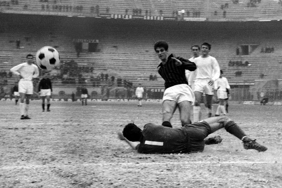 Milan, San Siro, February 9, 1966. A.C. Milan — Chelsea F.C. 2-1, 3rd round of the 1965–66 Inter-Cities Fairs Cup, 1st leg: Italian footballer Gianni Rivera beats English goalkeeper Peter Bonetti (no. 1) and scores at 75' the 2nd gol (partial 2-0) for the home team.